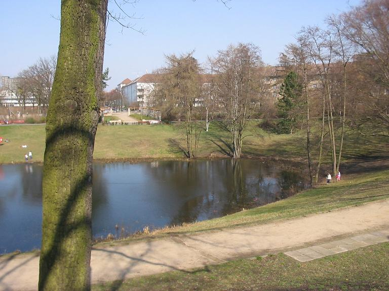 Alboinplatz in Berlin-Schöneberg, Germany. Naturdenkmal Toteisloch „Blanke Helle“.